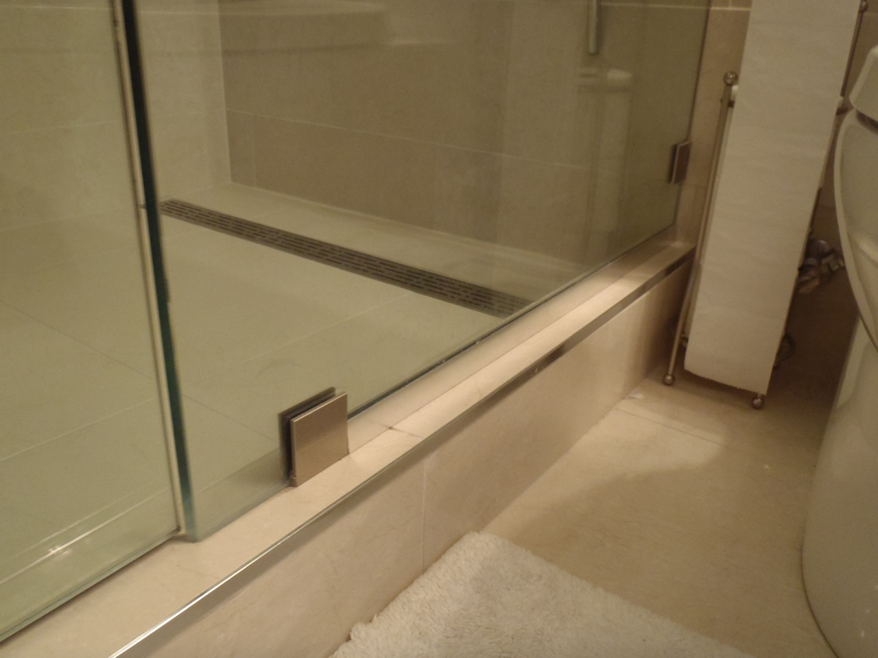 A look at a channel drain from ACO. This drain installed to repair a leaking standard compression drain. Notice the one way slope and large format tile.